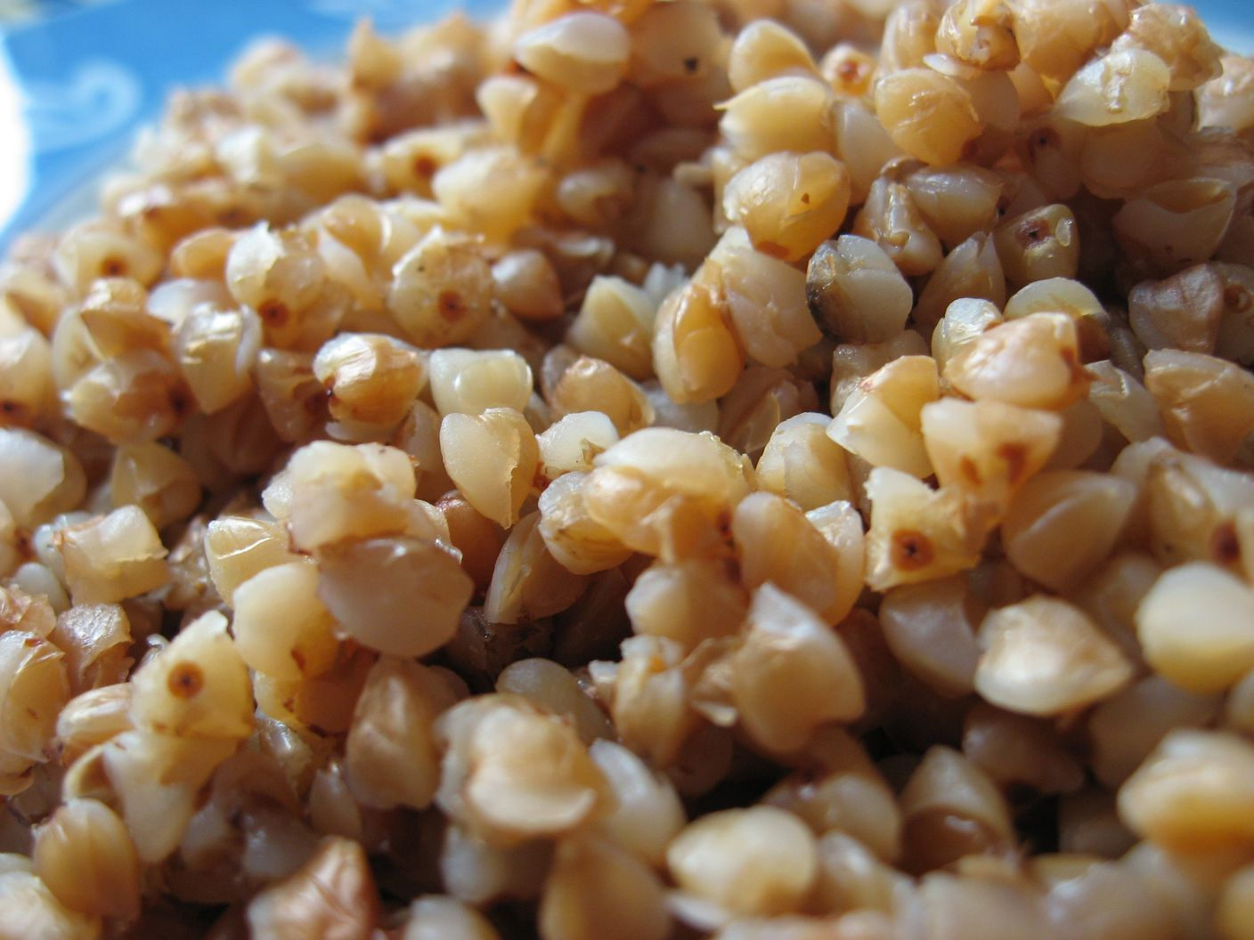 Cooked buckwheat groats